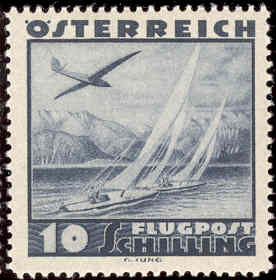 Airmail stamp of Austria, 1935, Scott #C46.